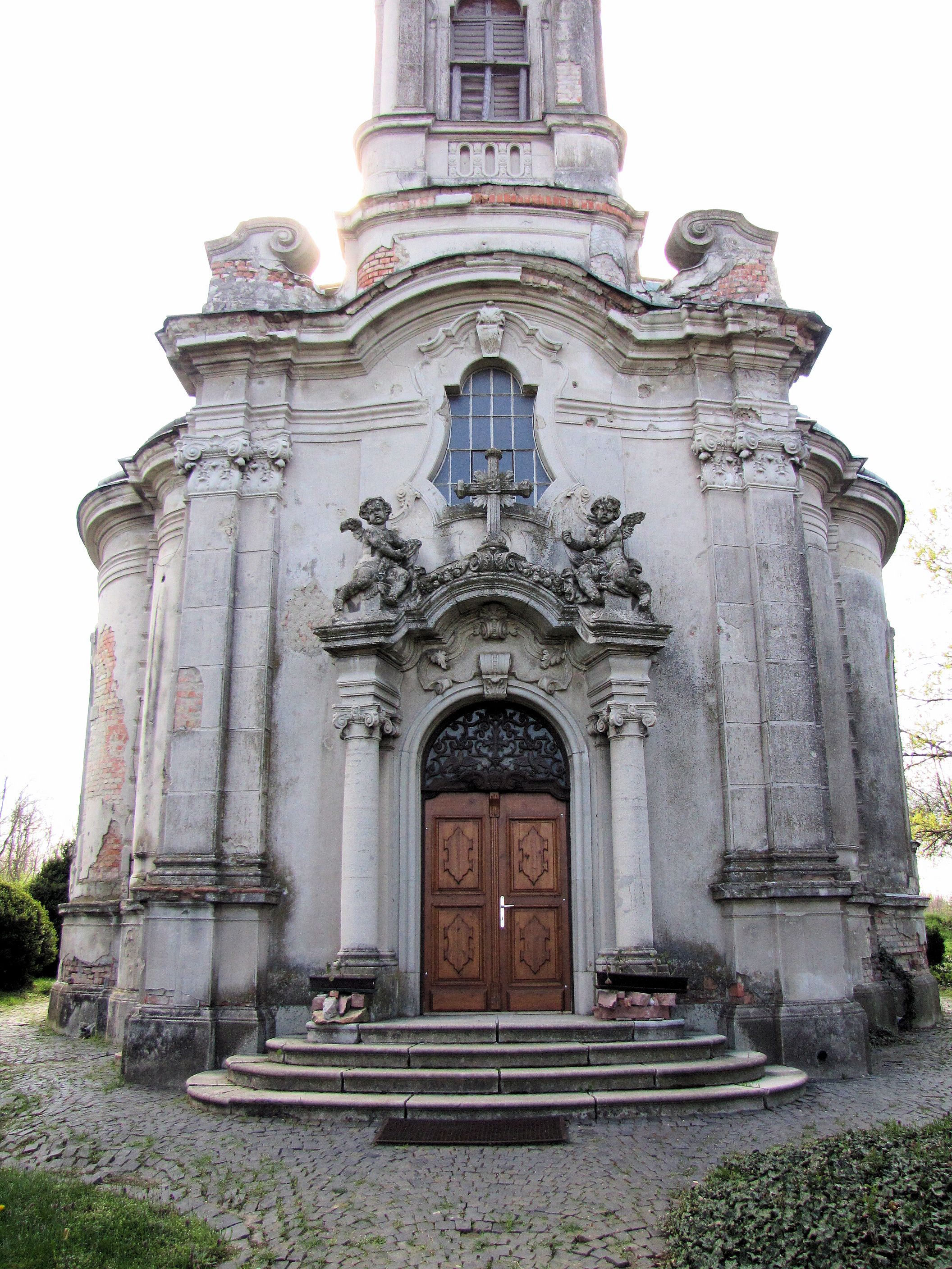 Roman catholic chapel in the cemetery, Pusztaegres-Sárhatvan, Hungary. This is a photo of a monument in Hungary, Identifier: -3139